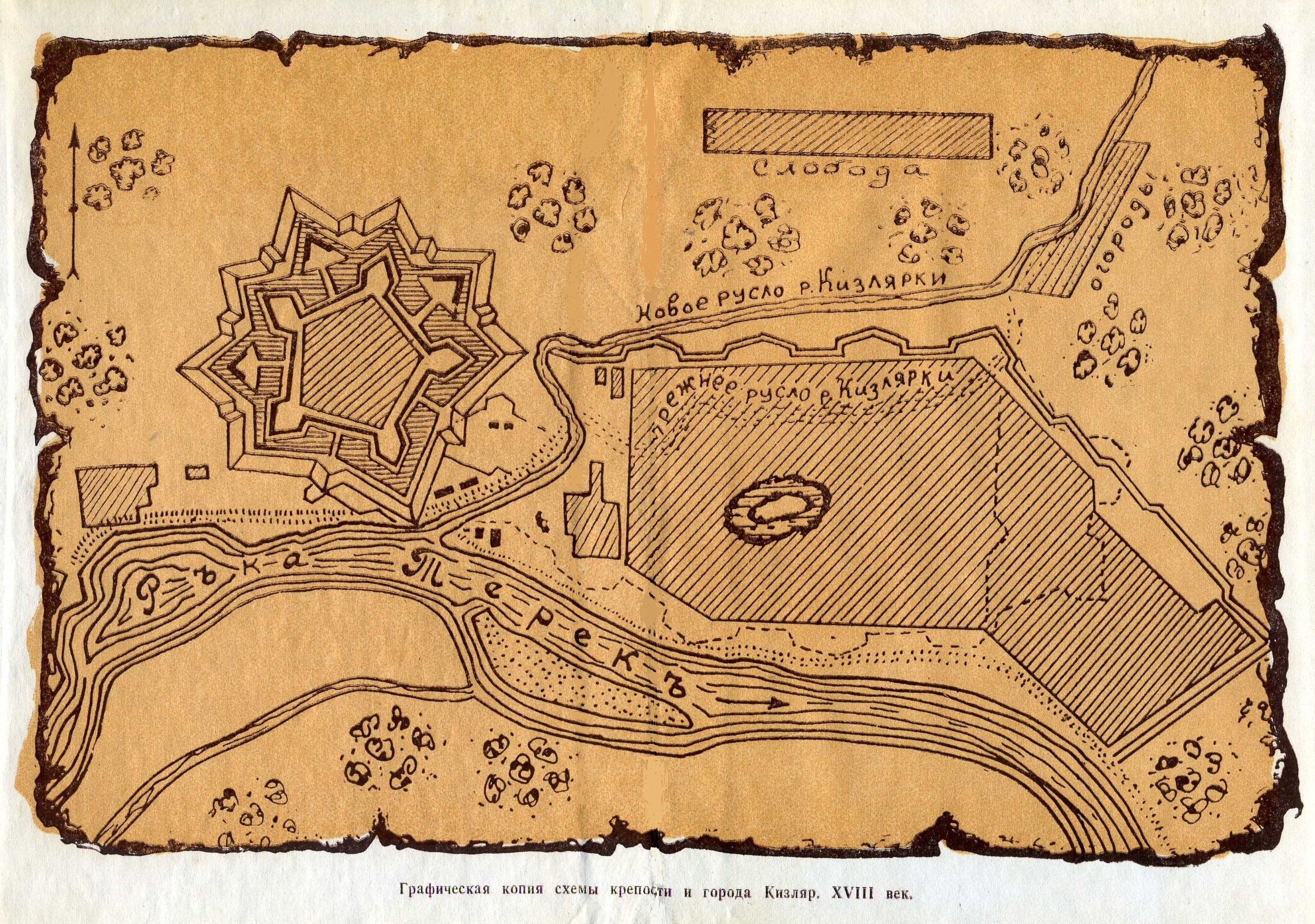 schematic map of the fortress and the city of Kizlyar (Russia) during the 18th century